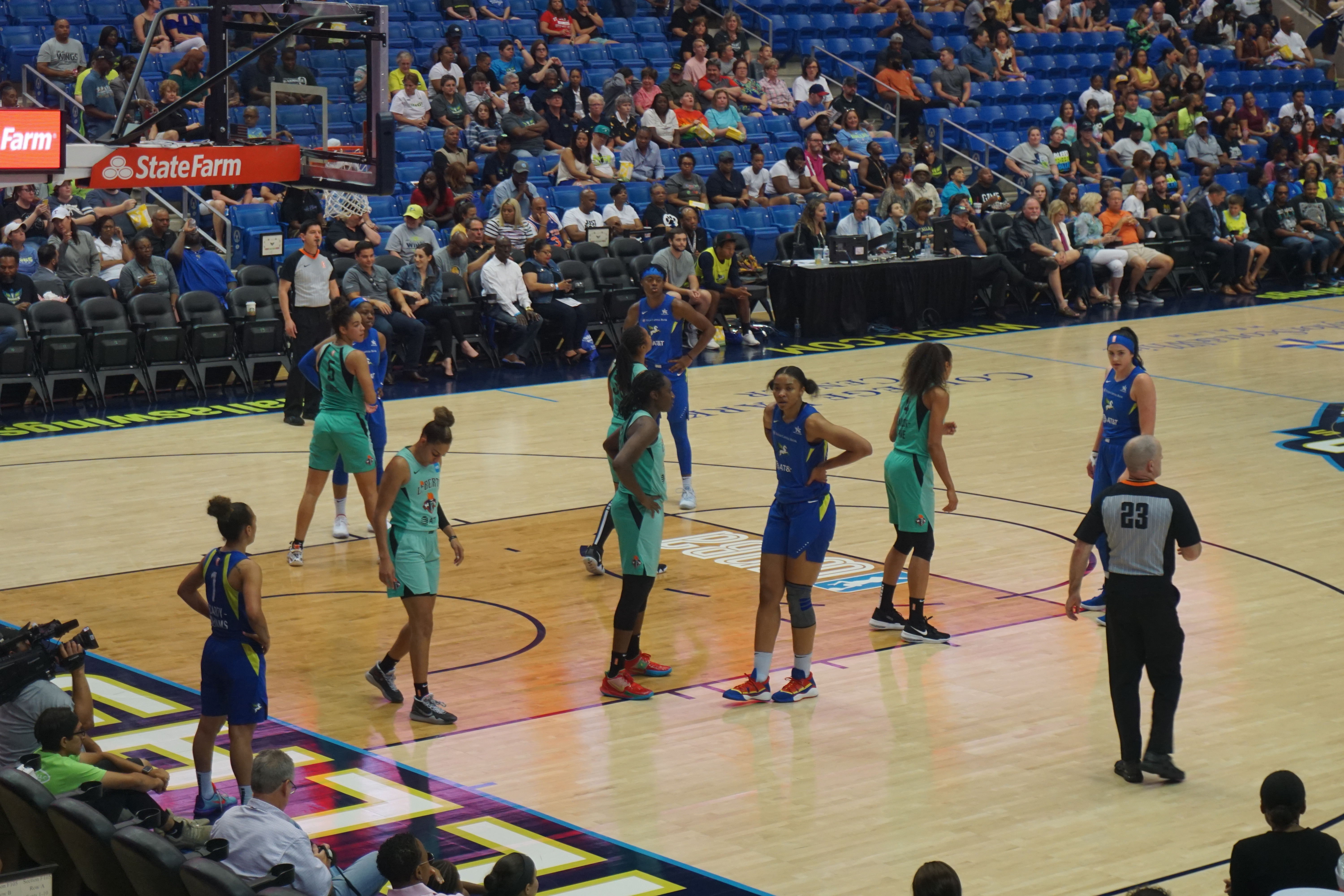 In-game action during the New York Liberty vs. Dallas Wings basketball game at College Park Center in Arlington, Texas (United States). Dallas won 83–77.